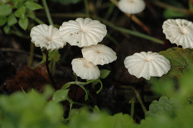 Marasmius rotula from Commanster, Belgium. The determination of the species shown in this picture has been verified.